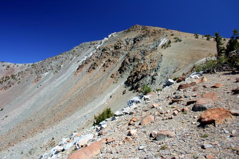 Mount Eddy, Siskiyou / Trinity counties, California